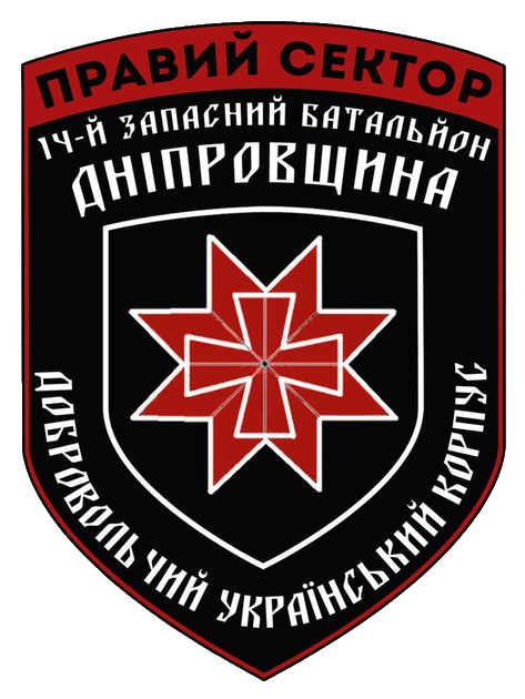 Sleeve patch of the 14th Replacement Battalion for the Ukrainian Volunteer Corps (UVC)